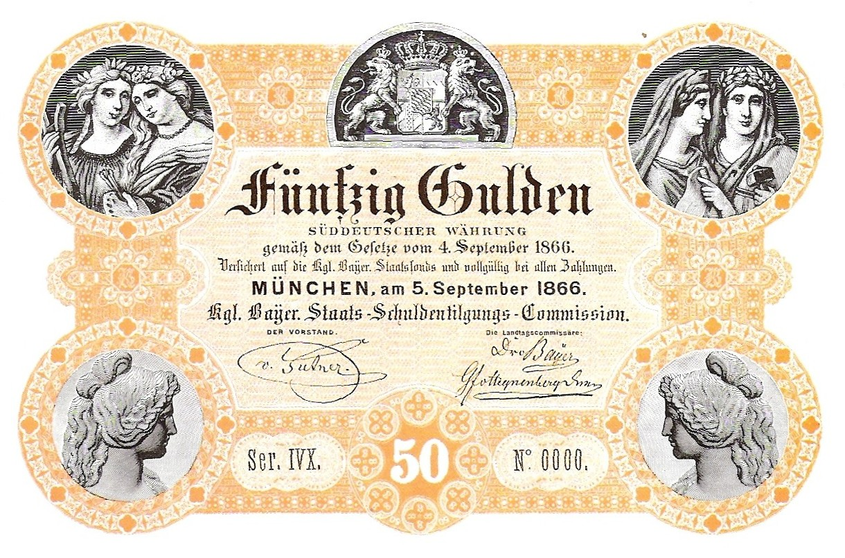 Banknotes from Bavaria, 50 Gulden, year 1866